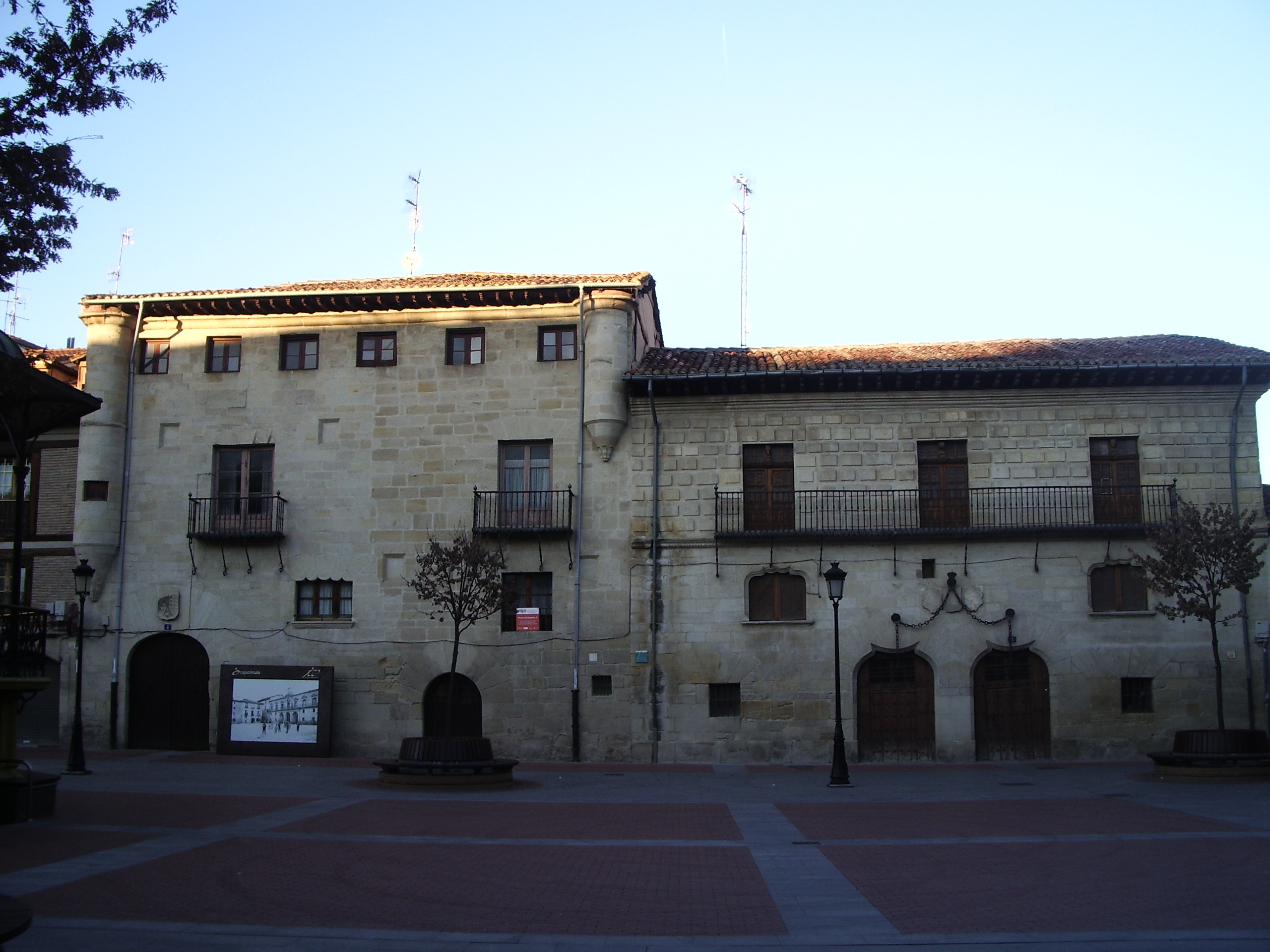 Renacentist houses in Miranda de Ebro.